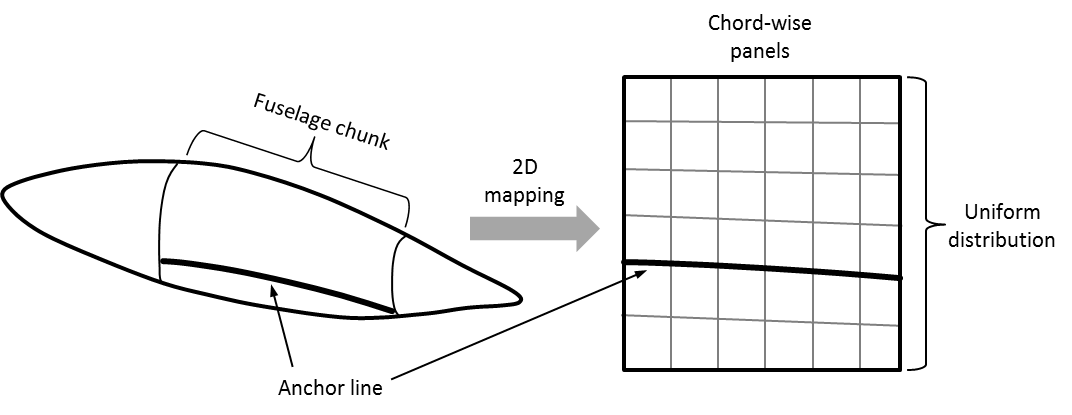 Method used to map the anchor line of a lifting-surface to fuselage link.